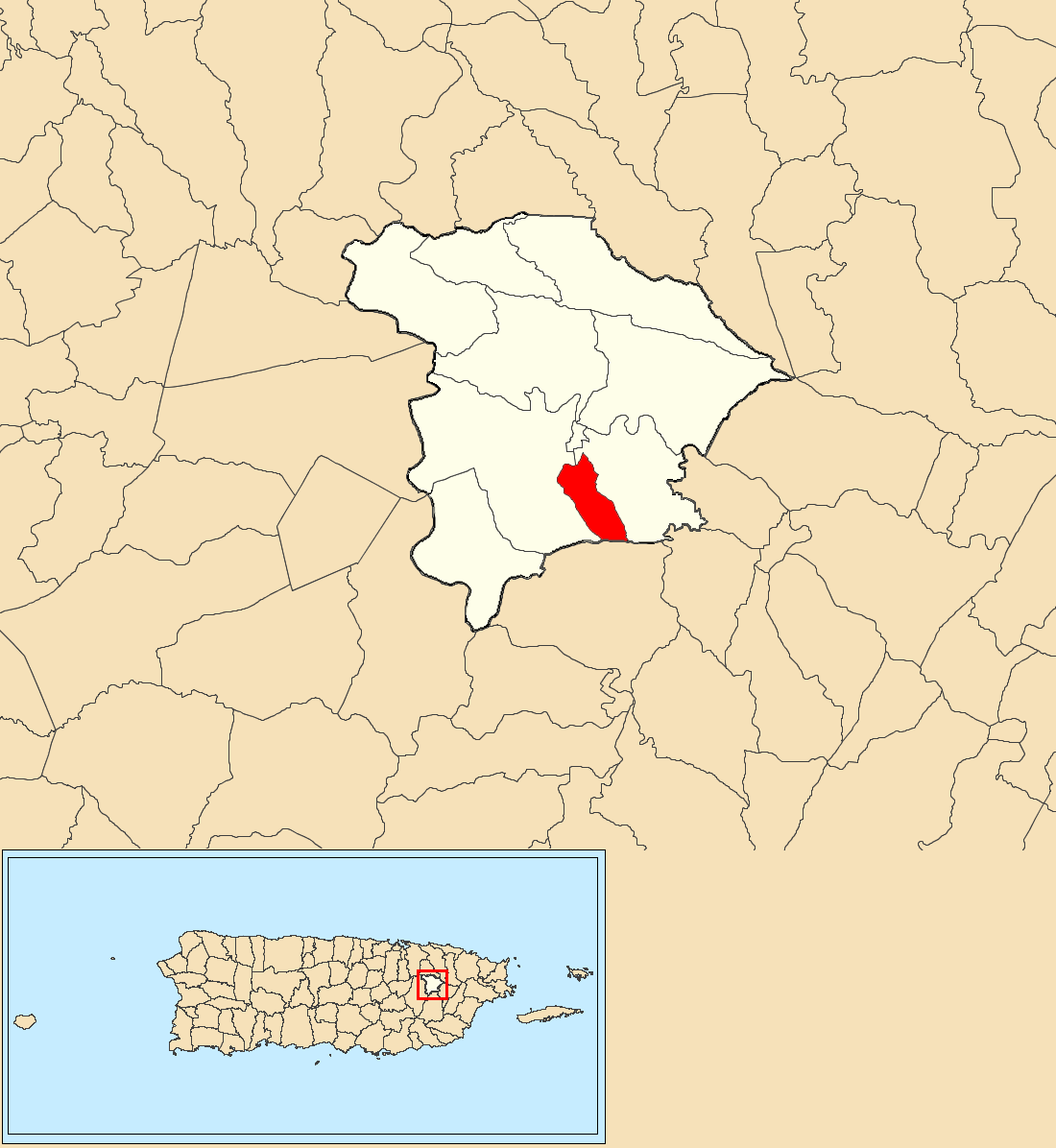 Jaguar, Gurabo, Puerto Rico locator map